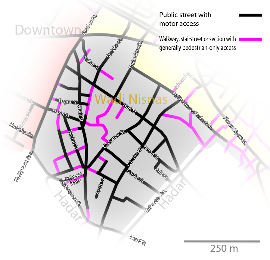 Central Haifa zone cut: Wadi Nisnas.